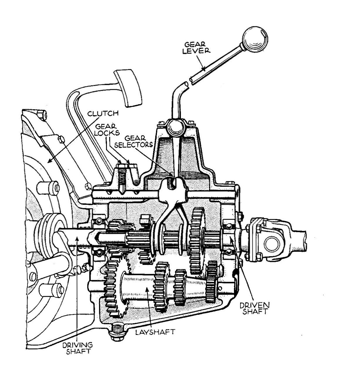 Gearbox (Autocar Handbook, 13th ed, 1935).jpg